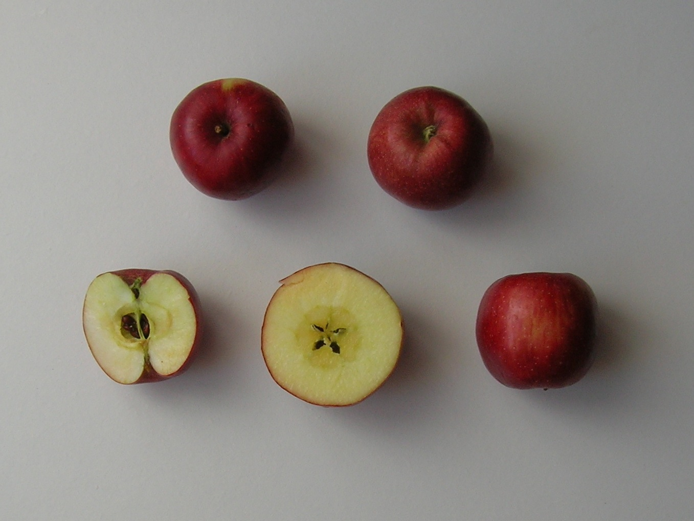 Runsè Apple, ancien variety of Piedmont (Italy). Those one come from a farm in Verrayes, Aosta, Italia.